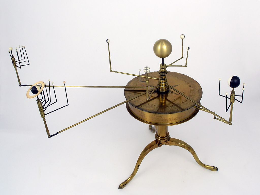 Large brass orrery, flat cylindrical mechanism with long winding handle, calendar and signs of zodiac engraved on top, mounted on three legs, brass sun with ivory planets with their moons on right angled arms. Made by Robert Brettell Bate of London, circa 1812. Editing undertaken: Auto Levels, Auto Contrast, Unsharp Mask